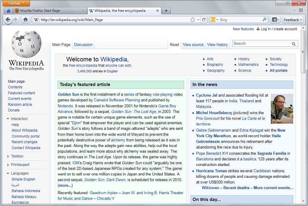 Screenshot of Firefox 4.0 beta in Windows, showing the English Wikipedia.